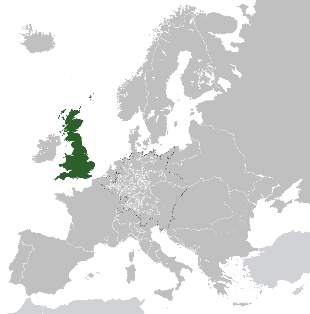 Own work, based upon Europe 1789.svg